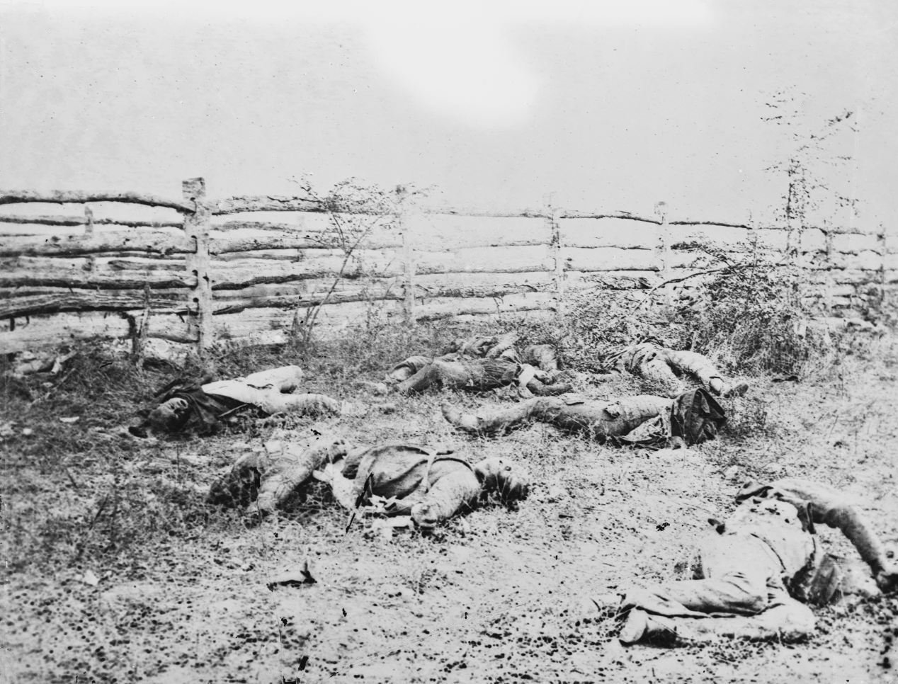 Confederate soldiers on the Antietam battlefield as they fell inside the fence on the Hagerstown road, September 1862